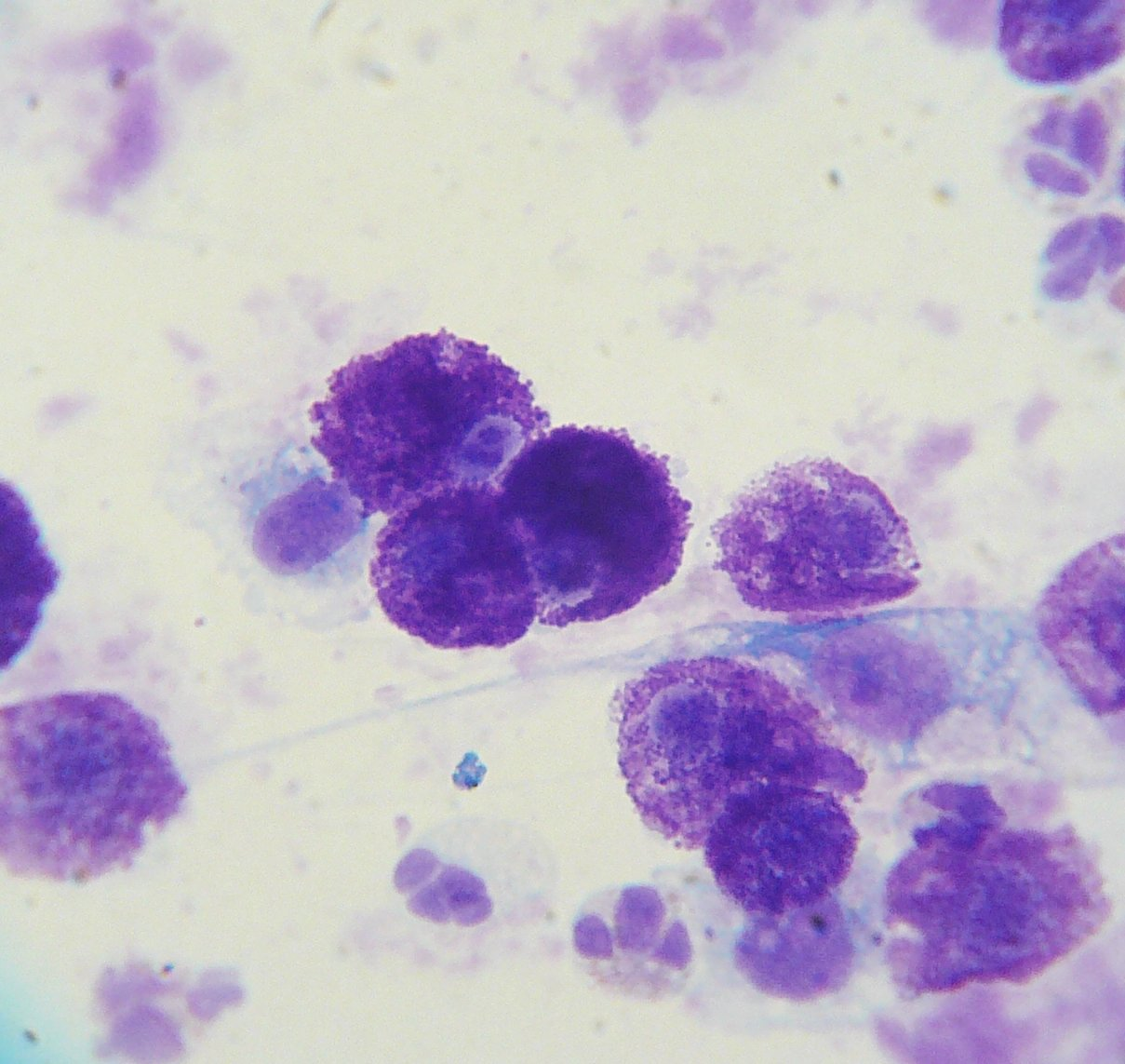 Cytology of a mast cell tumor from a Labrador Retriever. The magnification is 1000x. The cells are mast cells (although there are two granulocytes at the bottom and possibly a fibroblast to the right). The purple granules that are present in the cells are granules that contain histamine. Slide was stained with a modified Wright's stain.